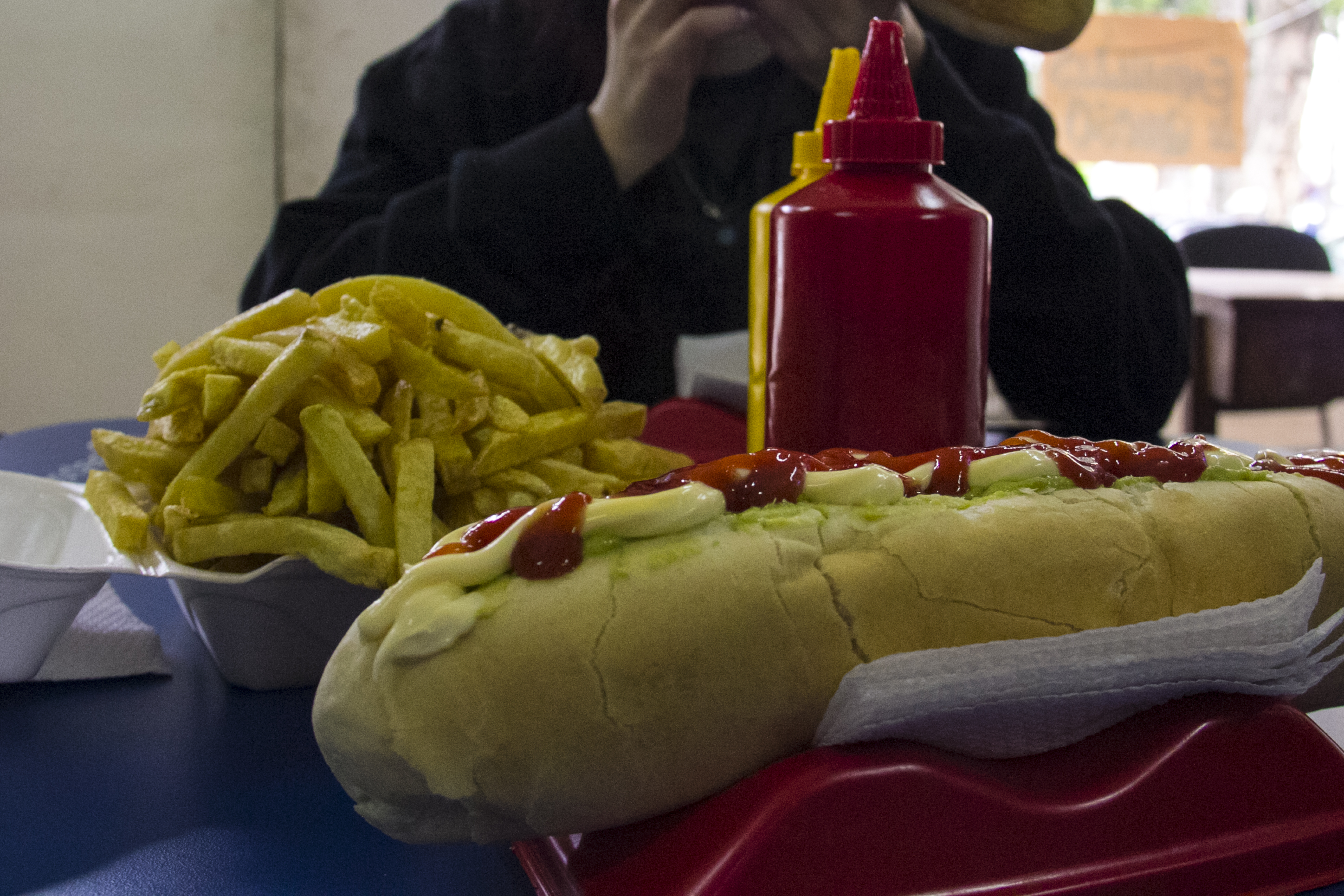 A chilean hot dog with mayonaise, tomato and avocado, commonly known as an "italiano", due to the resemblance with the italian flag, along with some french fries. Ketchup was added later as a custom.